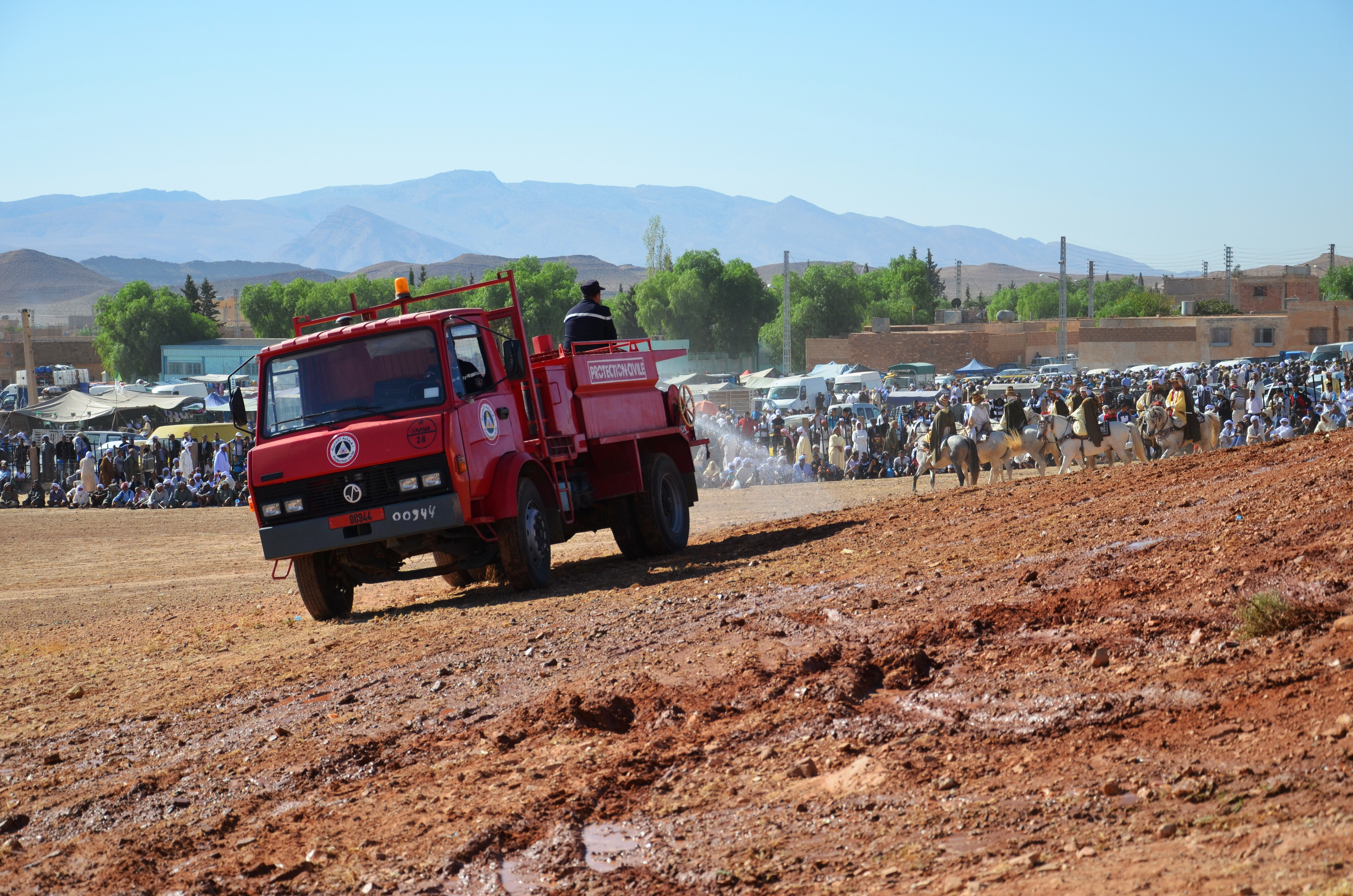 This is an image with the theme "Africa on the Move or Transport" from: Algeria